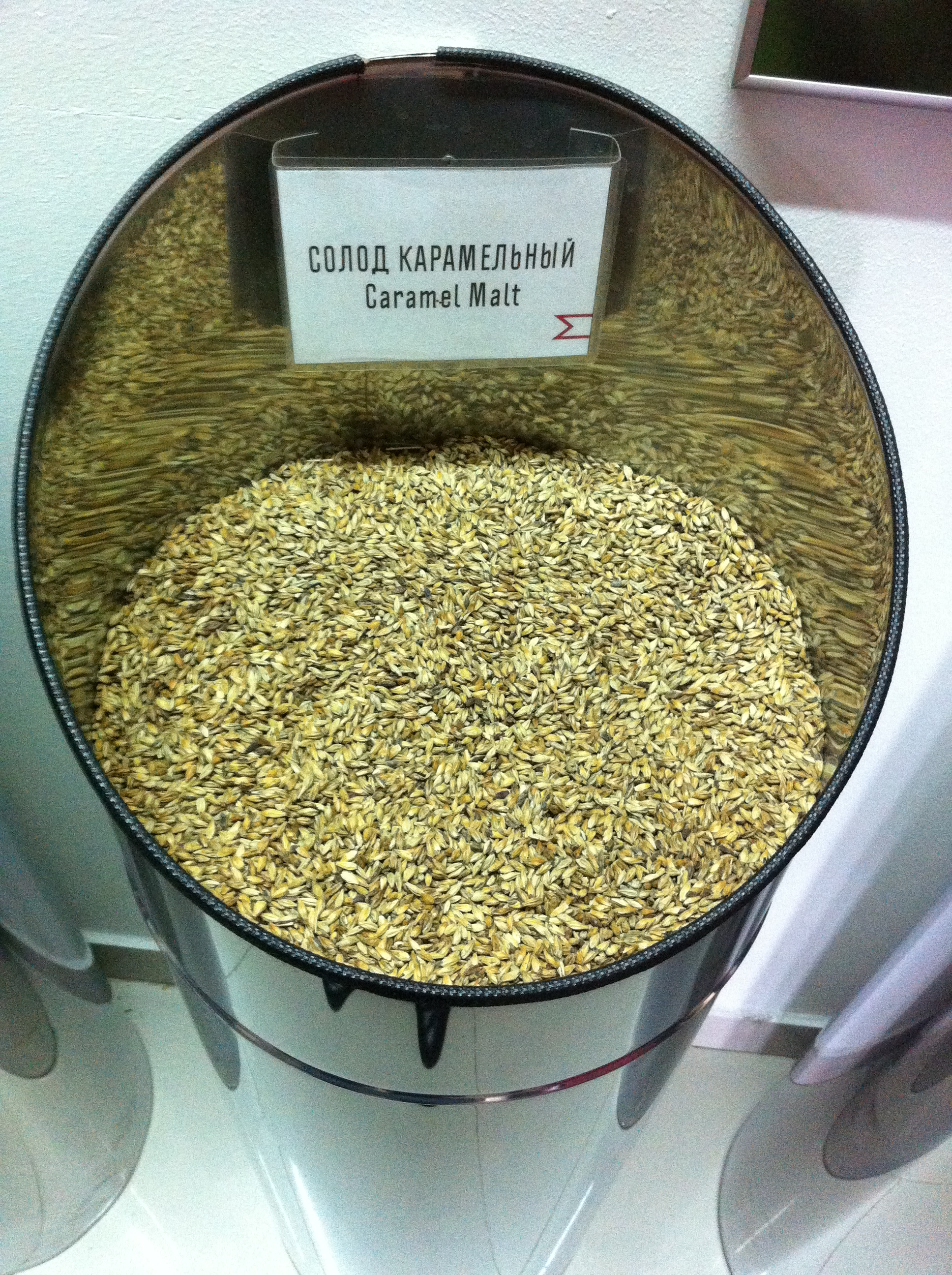 Caramel malt used for beer brewing. The sample at the brewery Moscow Brewing Company.